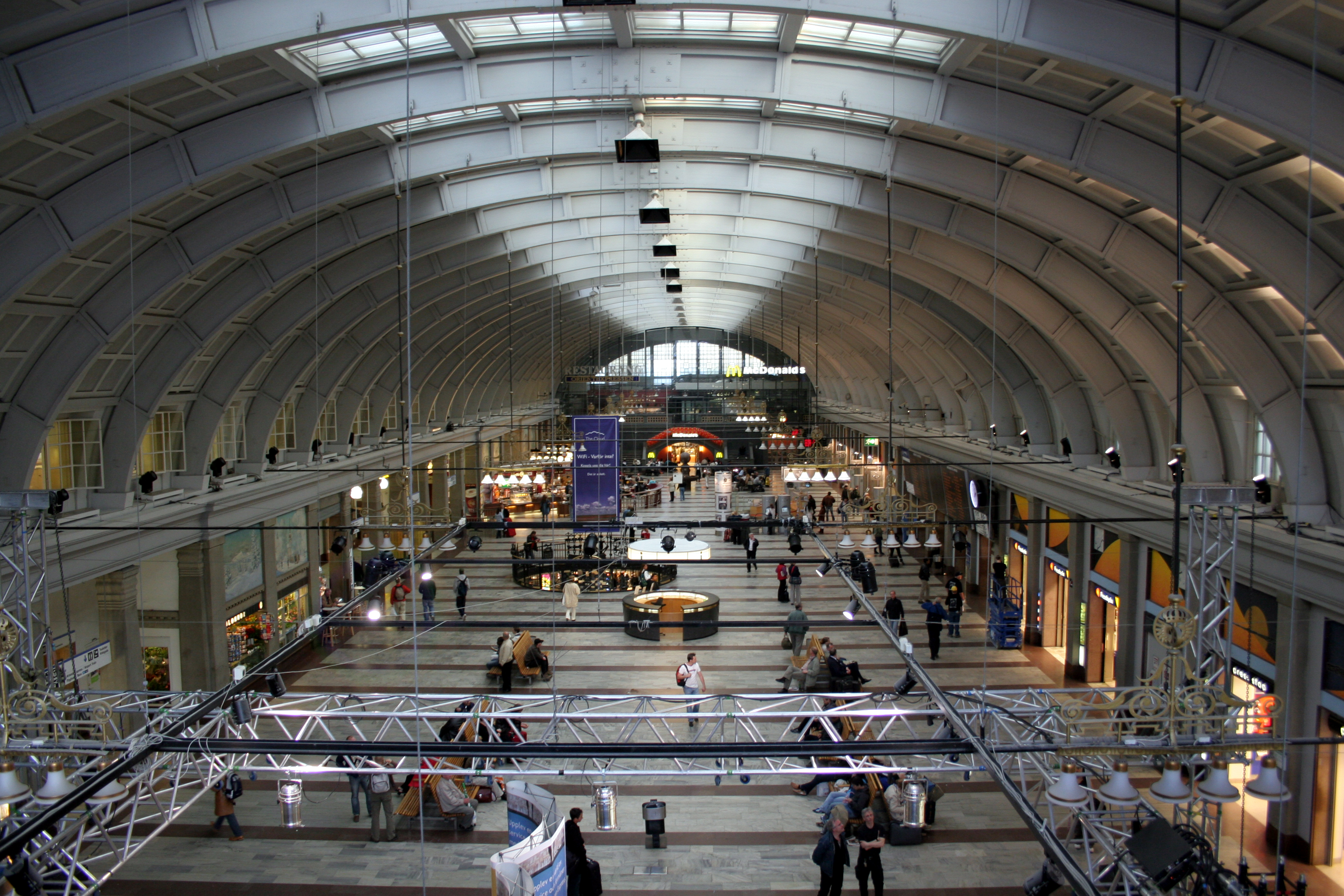 The interior of Stockholm central station